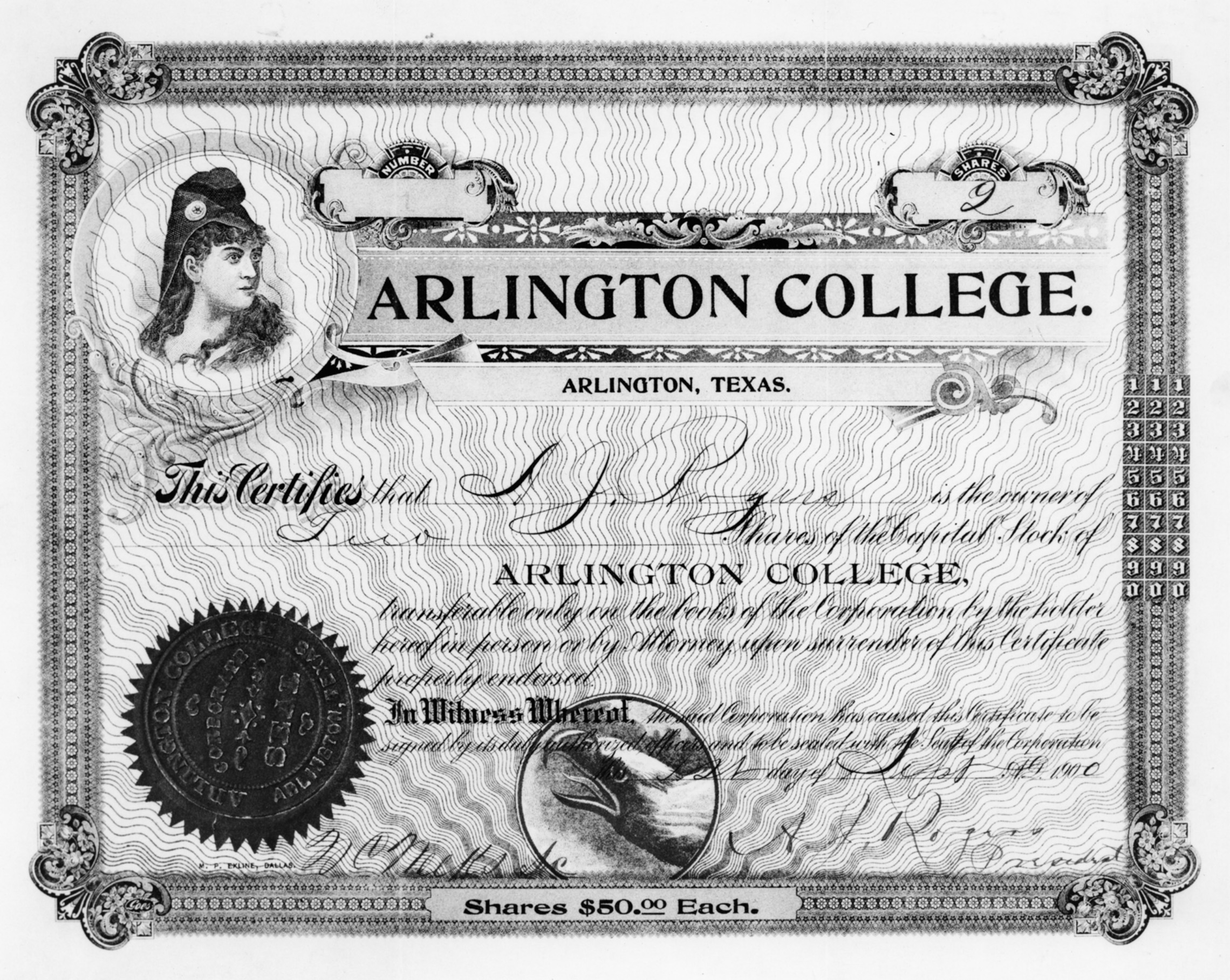 Stock Certificate for $50 issued to A.J. Rogers, Arlington College teacher.